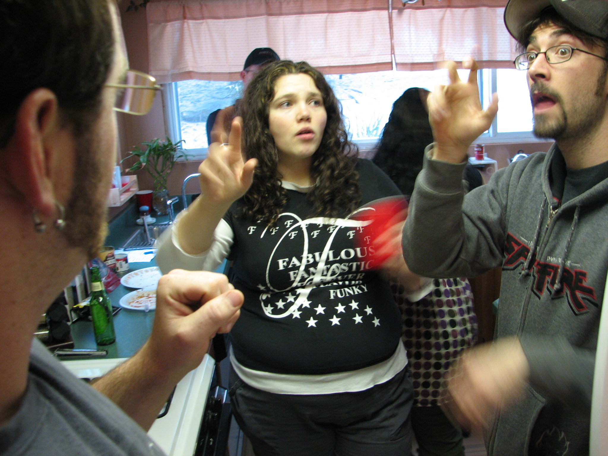 ASL in family